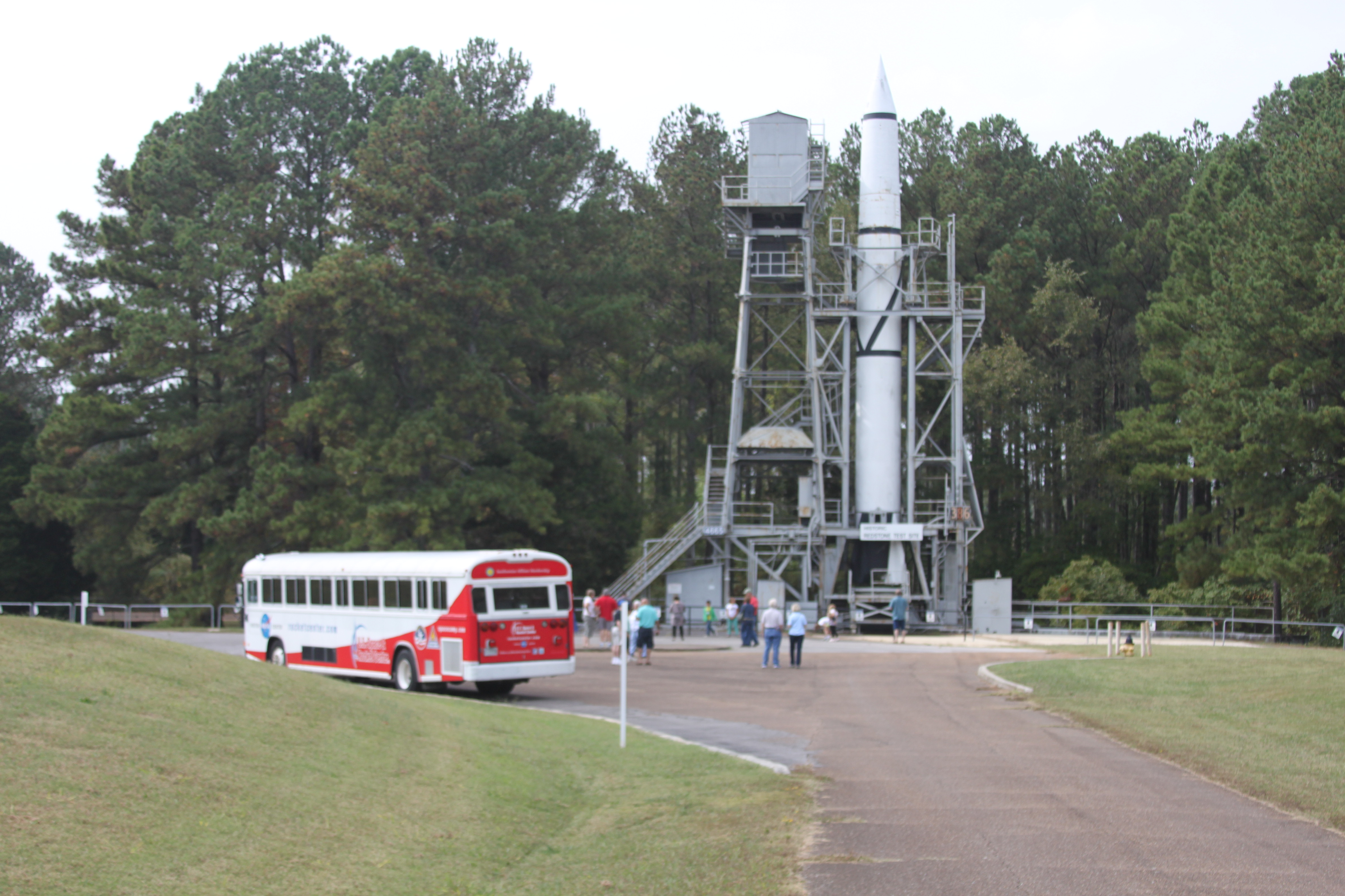 Tourists on the bus tour of Marshall Space Flight Center from the U.S. Space & Rocket Center step off the bus as the National Historic Landmark Redstone Test Stand. Walking on the grass is prohibited.